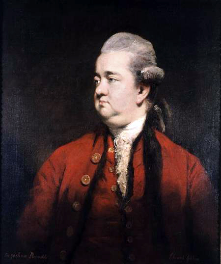 Portrait of Edward Gibbon (1737–1794)